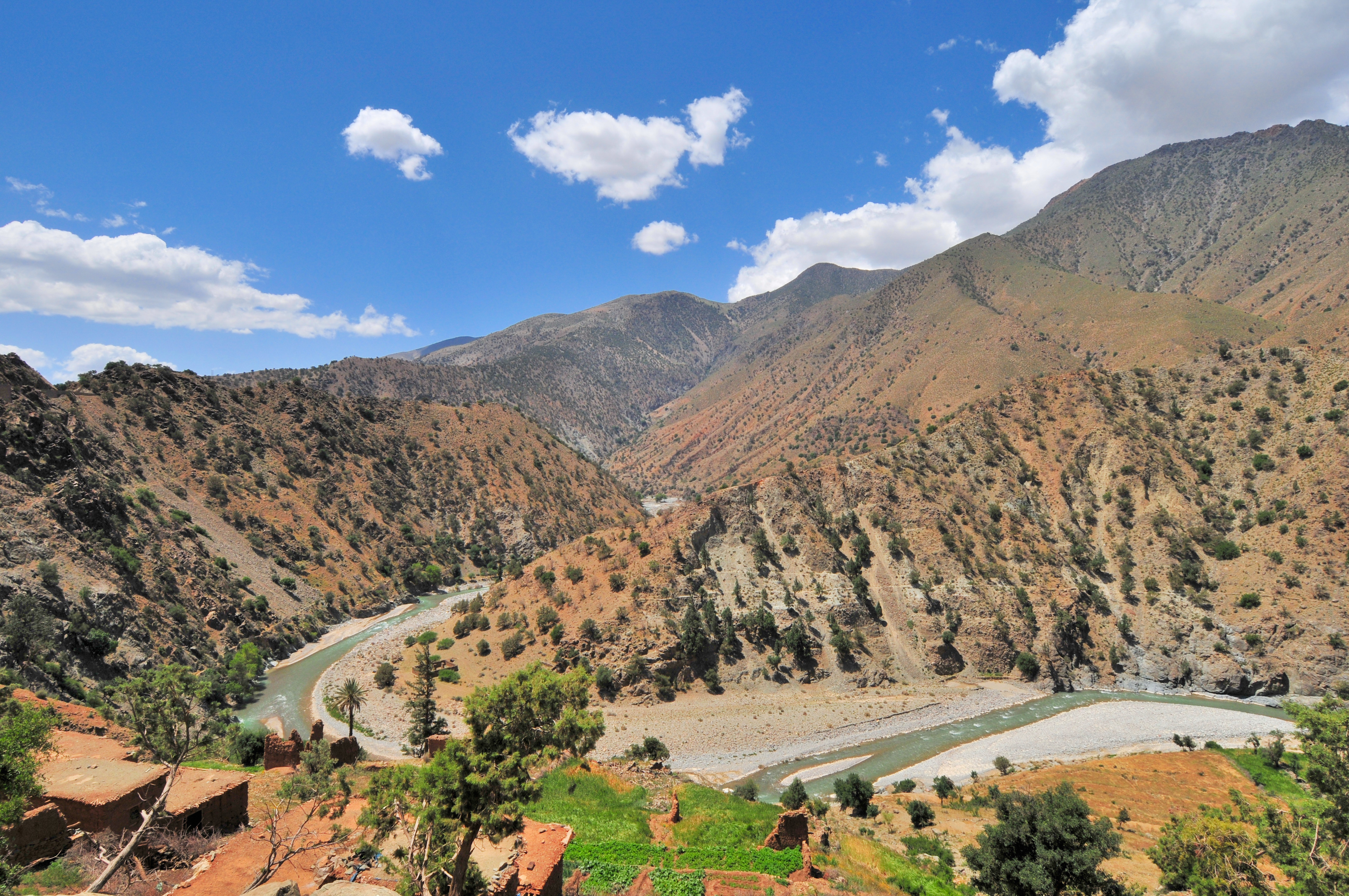 Wadi of the Souss river below Taroudant (Morocco)